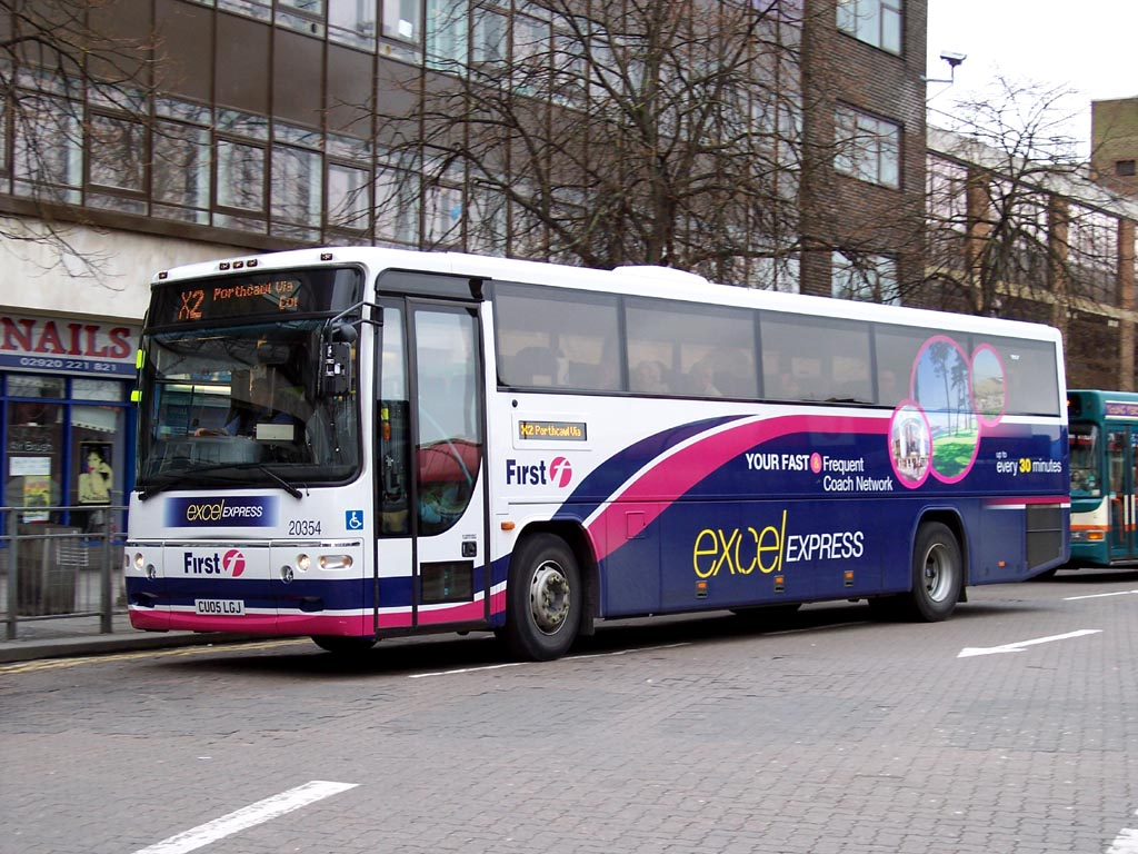 A Plaxton-bodied Volvo B7R coach of First Cymru leaves Cardiff bus station for Porthcawl. It is branded for the Excel Express network of express routes in South Wales.